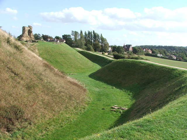 Sandal Castle. Looking SE.